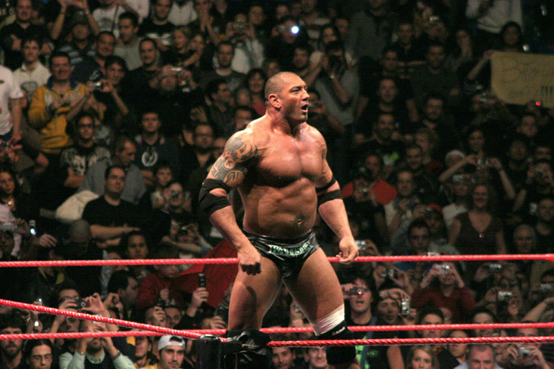 Batista in Milan,Italy